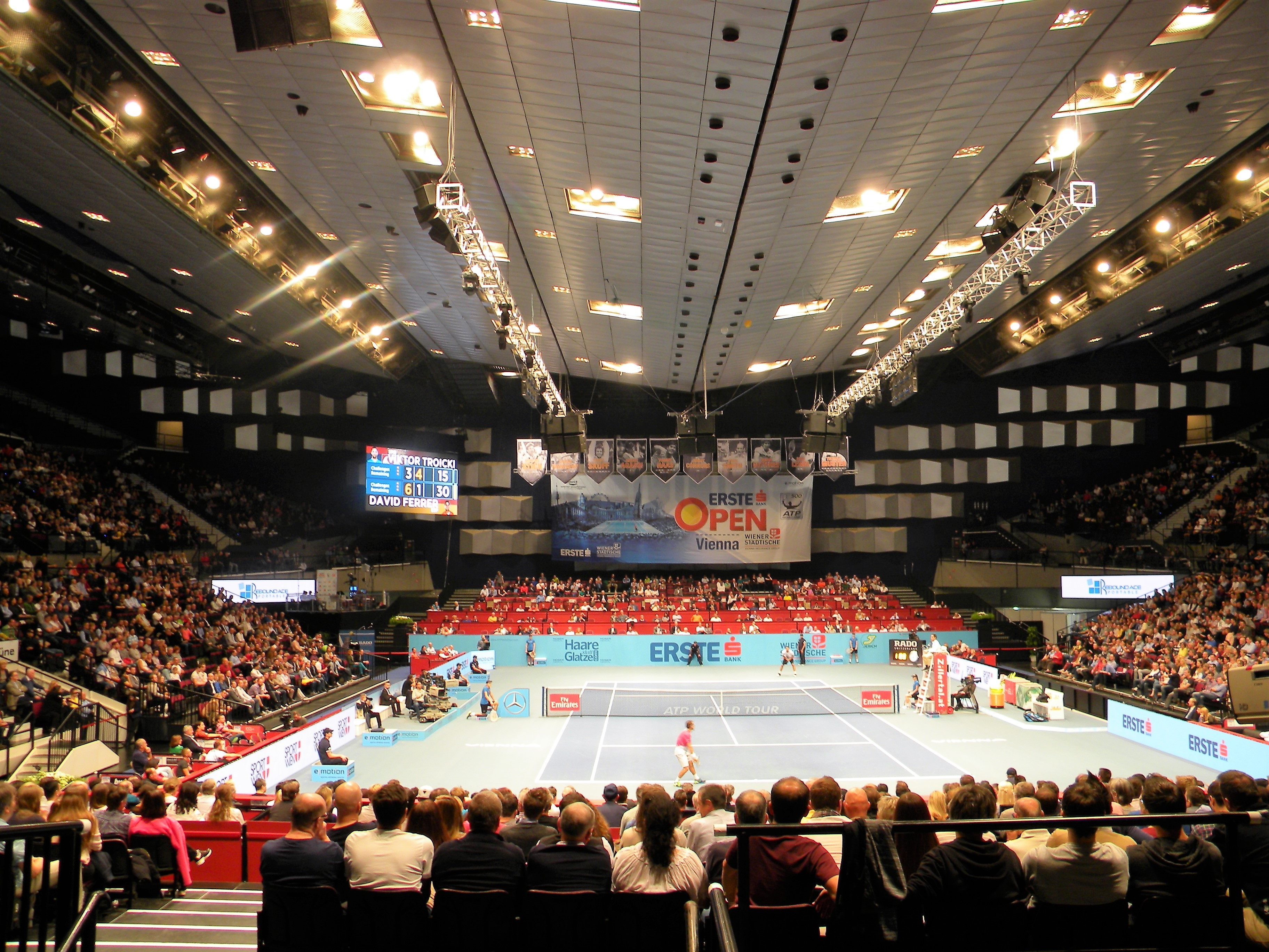 10/28/2016; David Ferrer (Spain) against Viktor Troicki (Serbia) 2-1; Quarterfinals